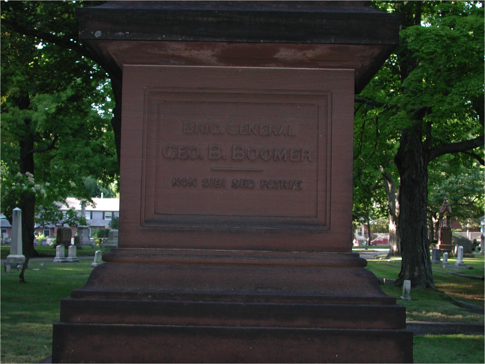 This is the base of the column which is the grave of George B. Boomer. It is located in Rural Cemetery in Worcester, Mass. It appears that Boomer was brevated to general at his death.